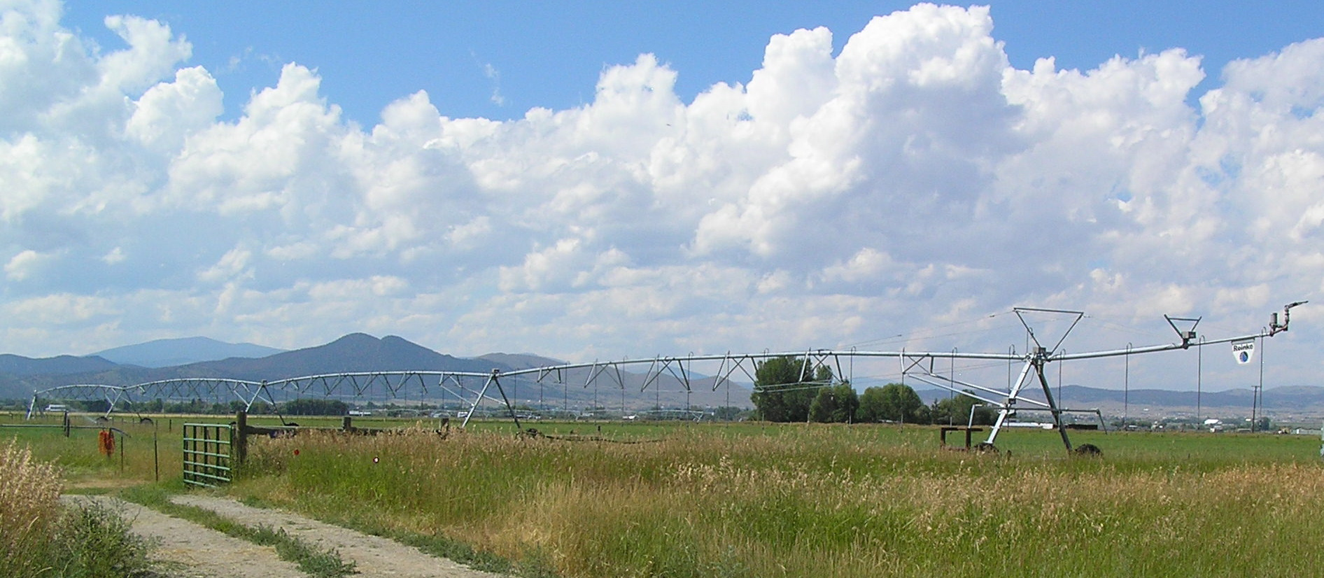 A relatively small center pivot irrigation system, turned off at the time photo was taken. The pivot is to the left of the image and the sprinkler pipes are attached to it. Also visible at the left edge of the photo, near the pivot, is the beginning of a wheel line irrigation system. Image taken in Lewis and Clark county, in west-central Montana.